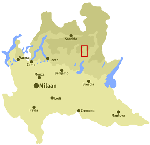 Position of the valley Valle di Scalve